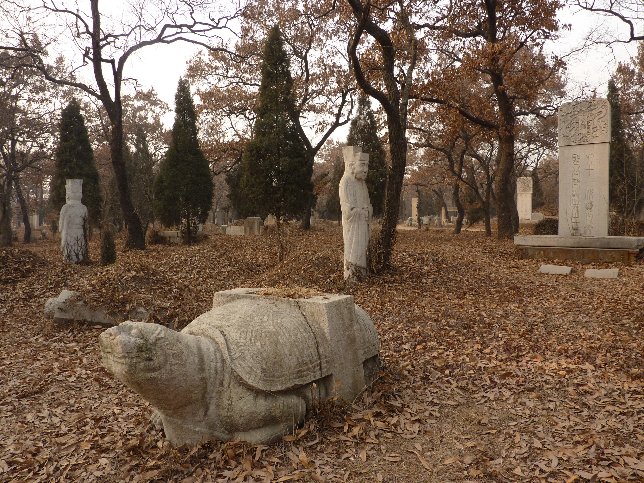 The area in the Ming (western) part of the Cemetery of Confucius where Dukes of Yansheng, who were the leaders of the Kong clan (55th through 64th generations in the direct line of descent from Confucius, according to an explanatory plaque) and the feudal rulers of Qufu, have been buried. Each of the dukes appears to have his own "spirit road" (shendao), i.e. a a path lined with the statues of feline creatures (cat? lions? tigers?), rams, horses, warriors and officials, concluded with a stele-bearing bixi tortoise, and, finally, the actual tombstone. As elsewhere in China, the tombstones and the bixi normally face south, while the spirit way figures face each other, looking across the path that runs from the south to the north.